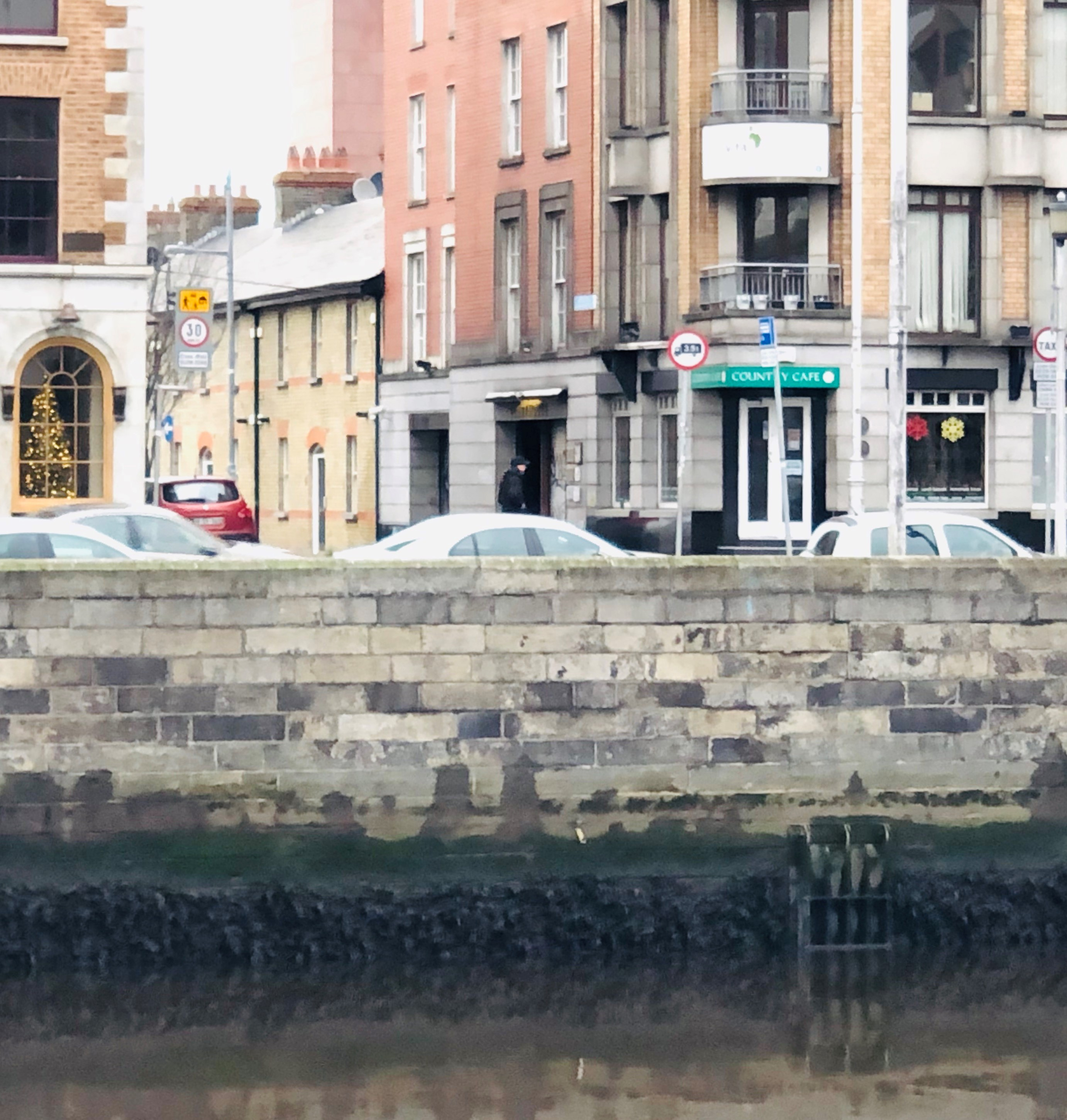 Outfall at Ormond Quay in front of Arran Street East, opposite the Longship monument, in central Dublin, of the Bradogue River, from Cabra, via flap-valved drainage overflow, as it finishes culverted in the city sewers. To illustrate Bradogue River article.